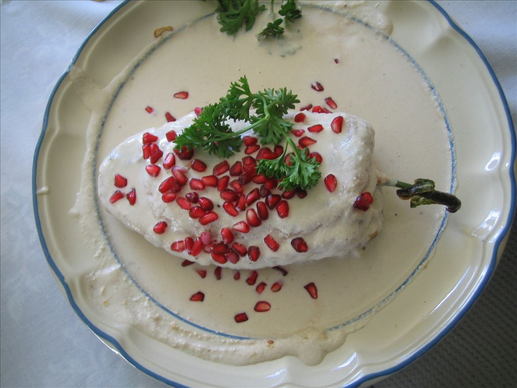 Chiles en nogada is a dish from Mexican cuisine. The name comes from the Spanish word for the walnut tree, nogal. It consists of poblano chiles filled with "picadillo" (a mixture usually containing chopped or ground meat, aromatics, fruits, and spices) topped with a walnut-based cream sauce and pomegranate seeds, giving it the three colors of the Mexican flag (red, green, and white).